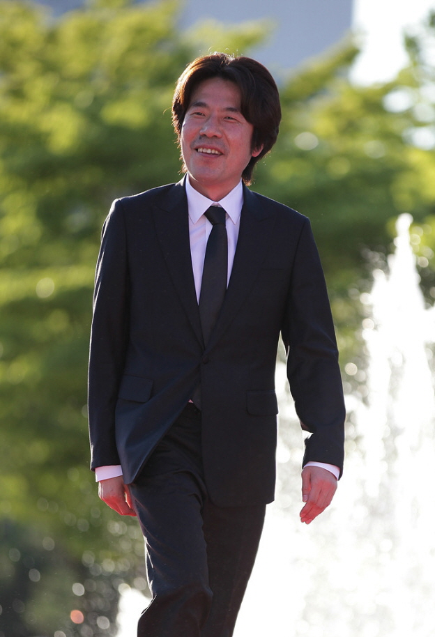 제19회 부천국제판타스틱영화제 개막식 레드카펫 part.1